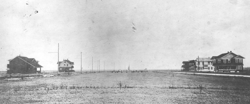 A photograph of Bellaire, Texas dated 1911 - On file in The Houston Post archives - Posted on the Houston Chronicle website by J.R. Gonzalez